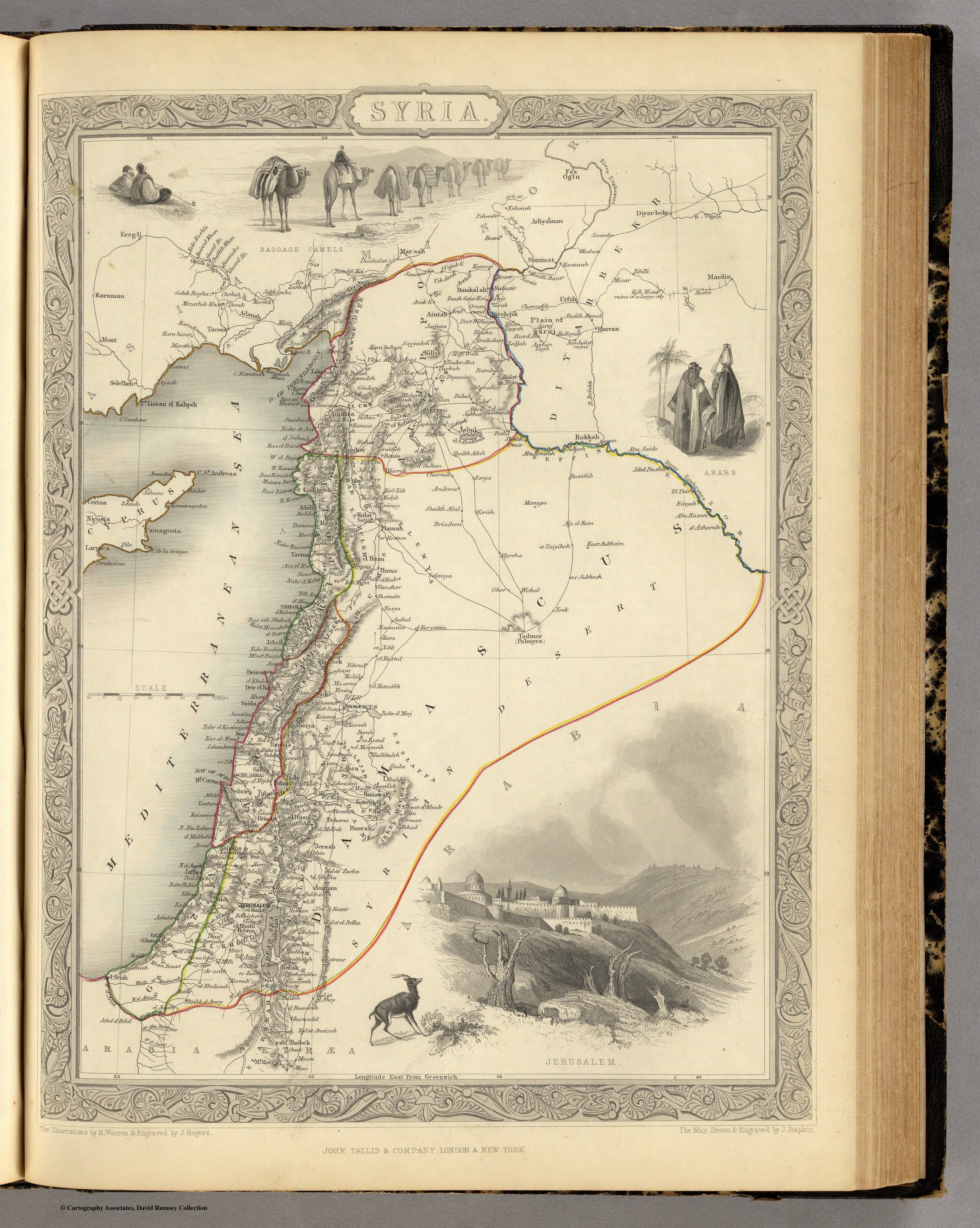 1851 Henry Warren Map of Syria